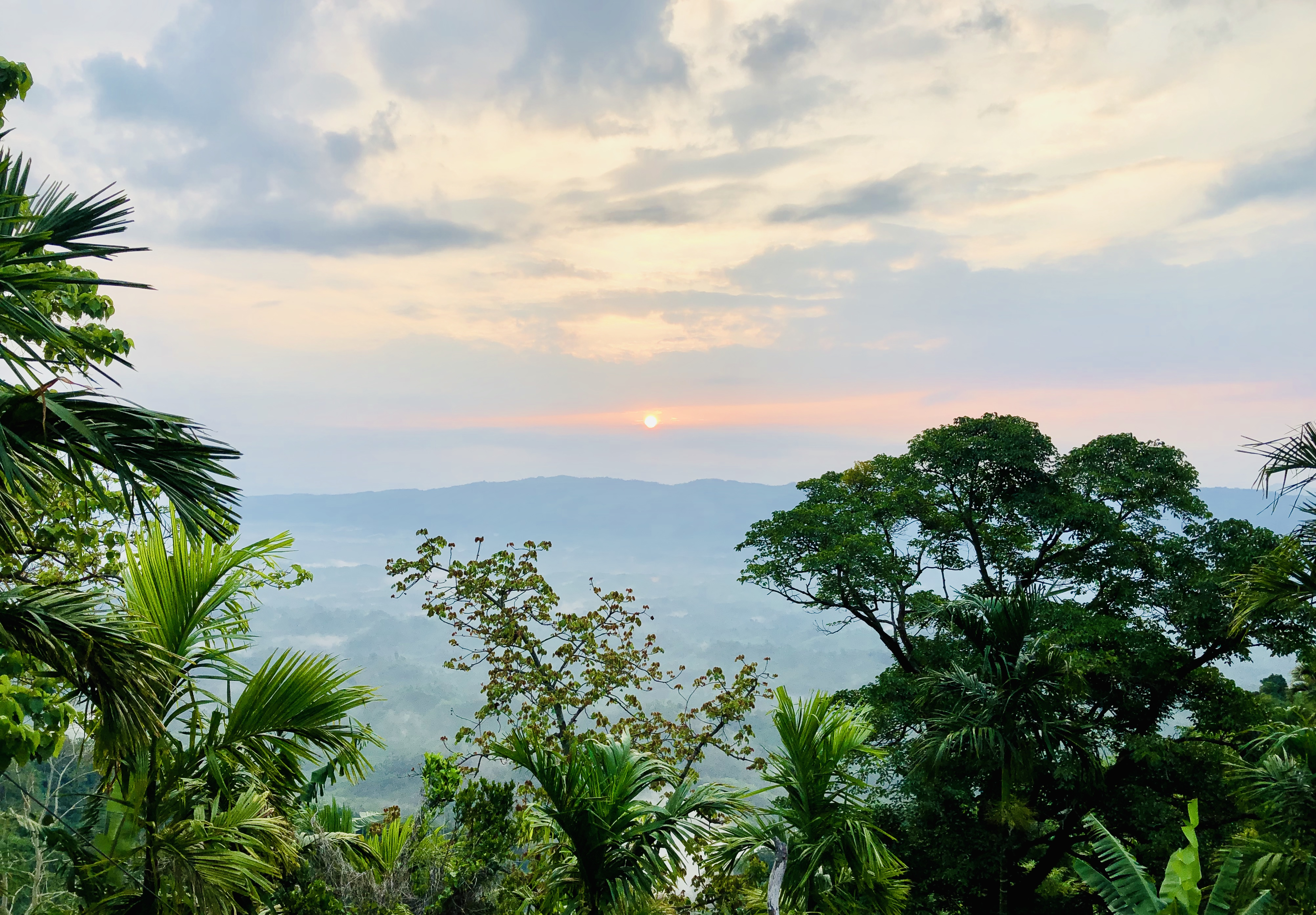 Sunrise at 4:30 A.M